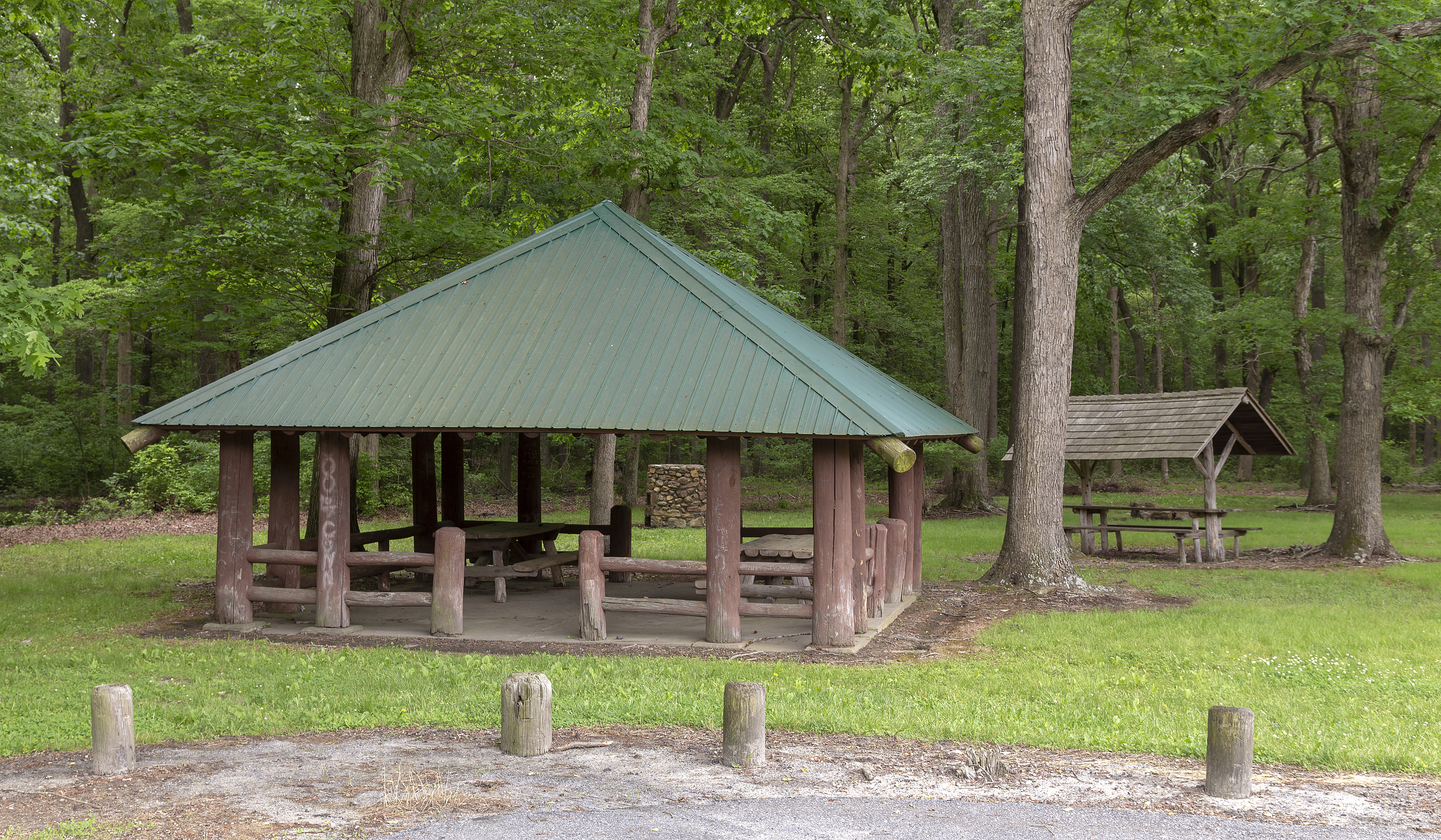 The Ellendale State Forest picnic area along US Route 113 near Ellendale, Delaware, USA